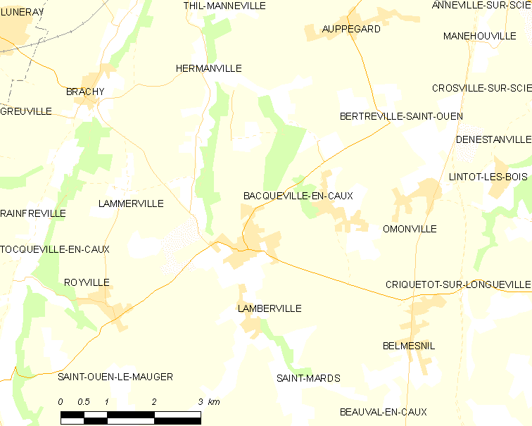 Map of French municipality Bacqueville-en-Caux